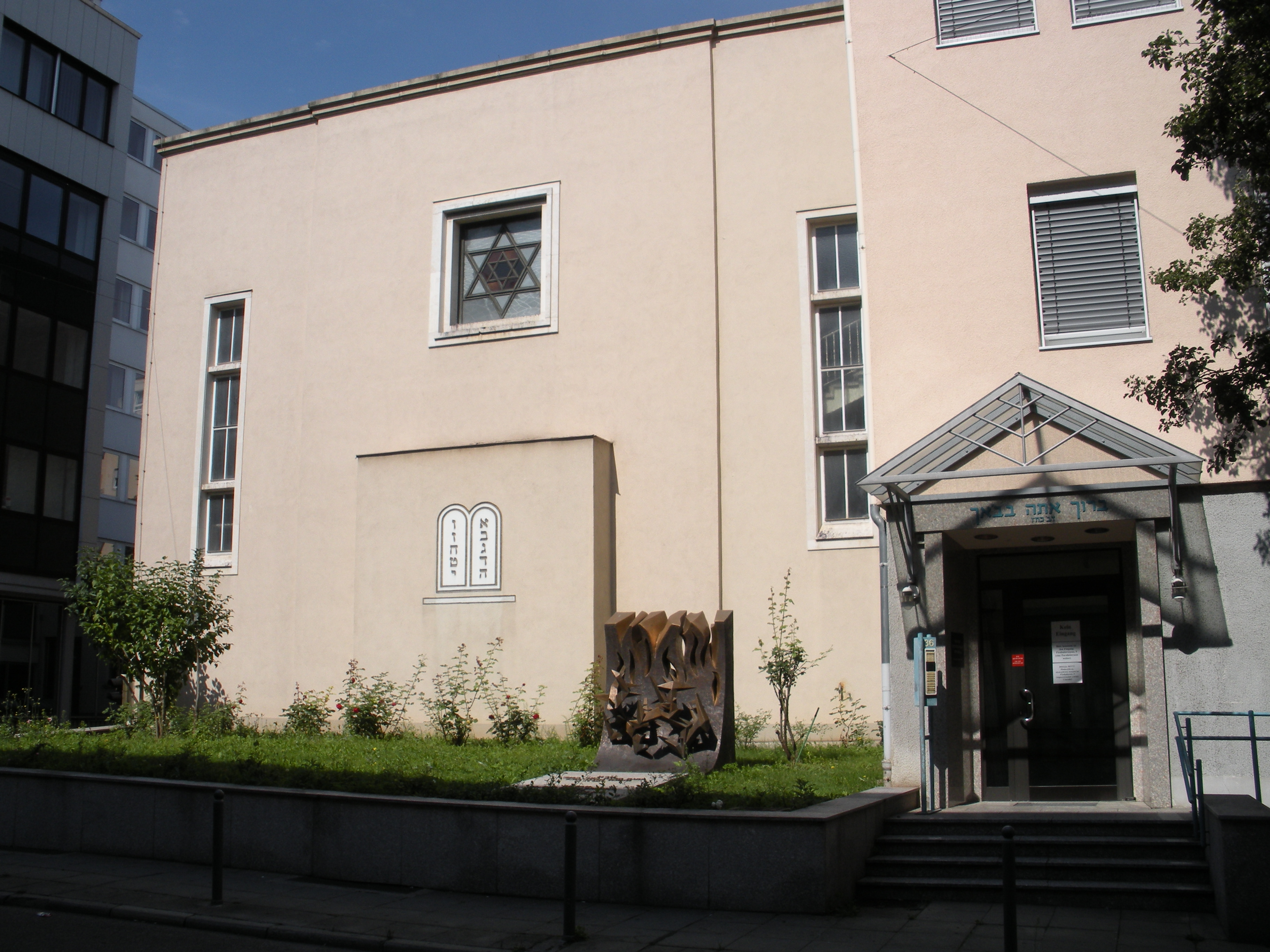 The Synagoge in Stuttgart-City